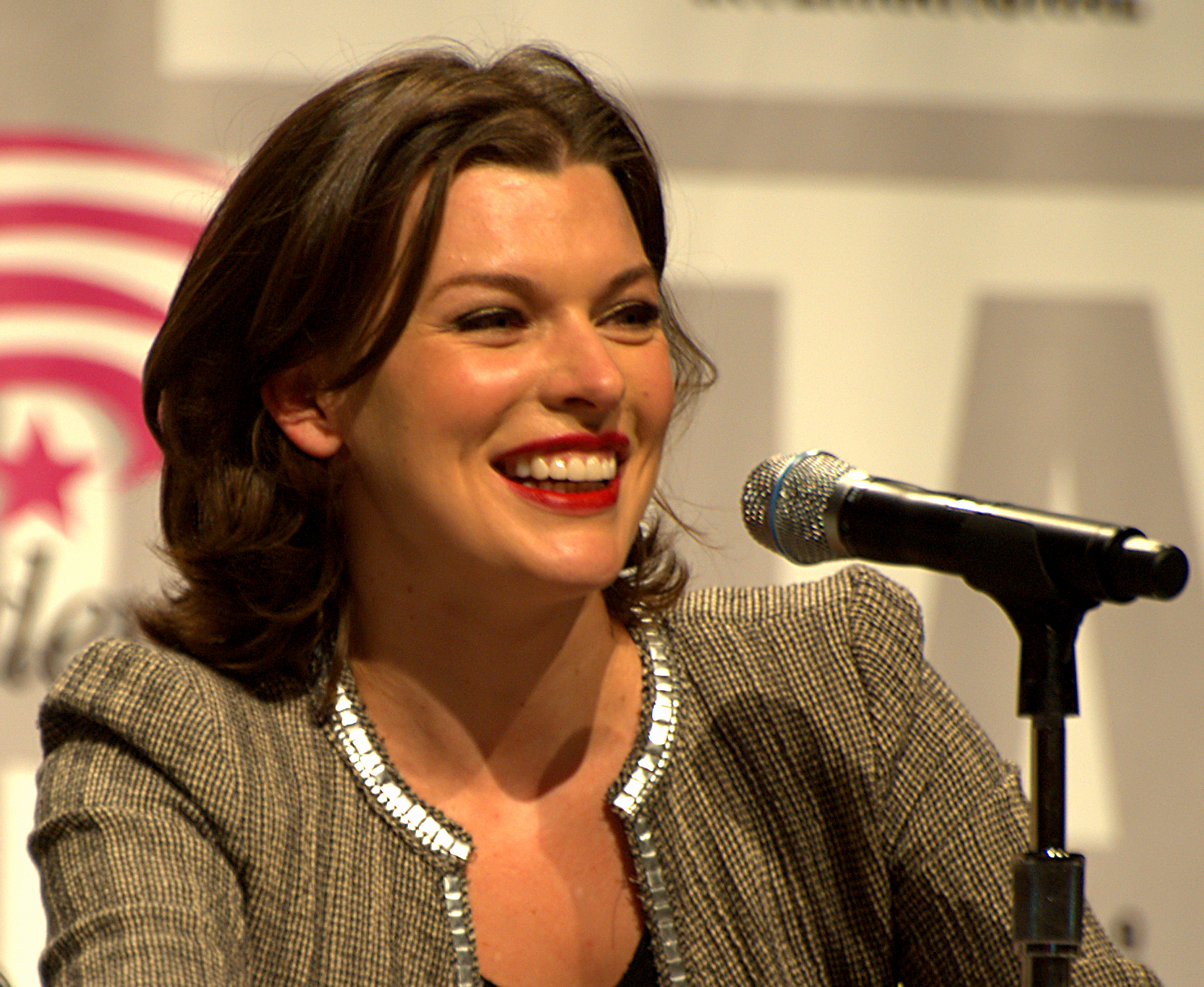 Milla Jovovitch at a panel for Resident Evil: Afterlife at WonderCon 2010.